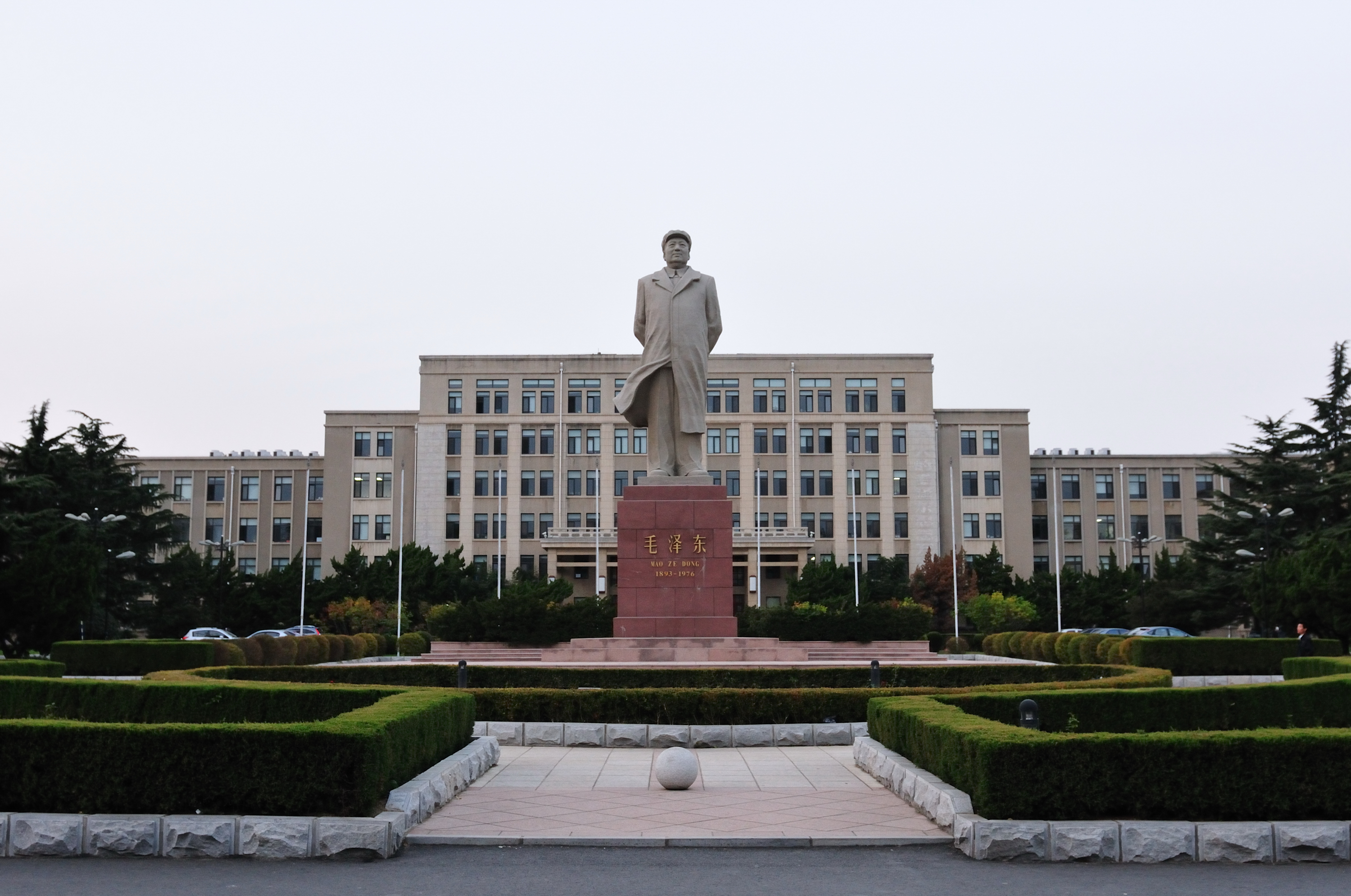 Dalian University of Technology, Mao Statue. Dalian, Liaoning Province, China